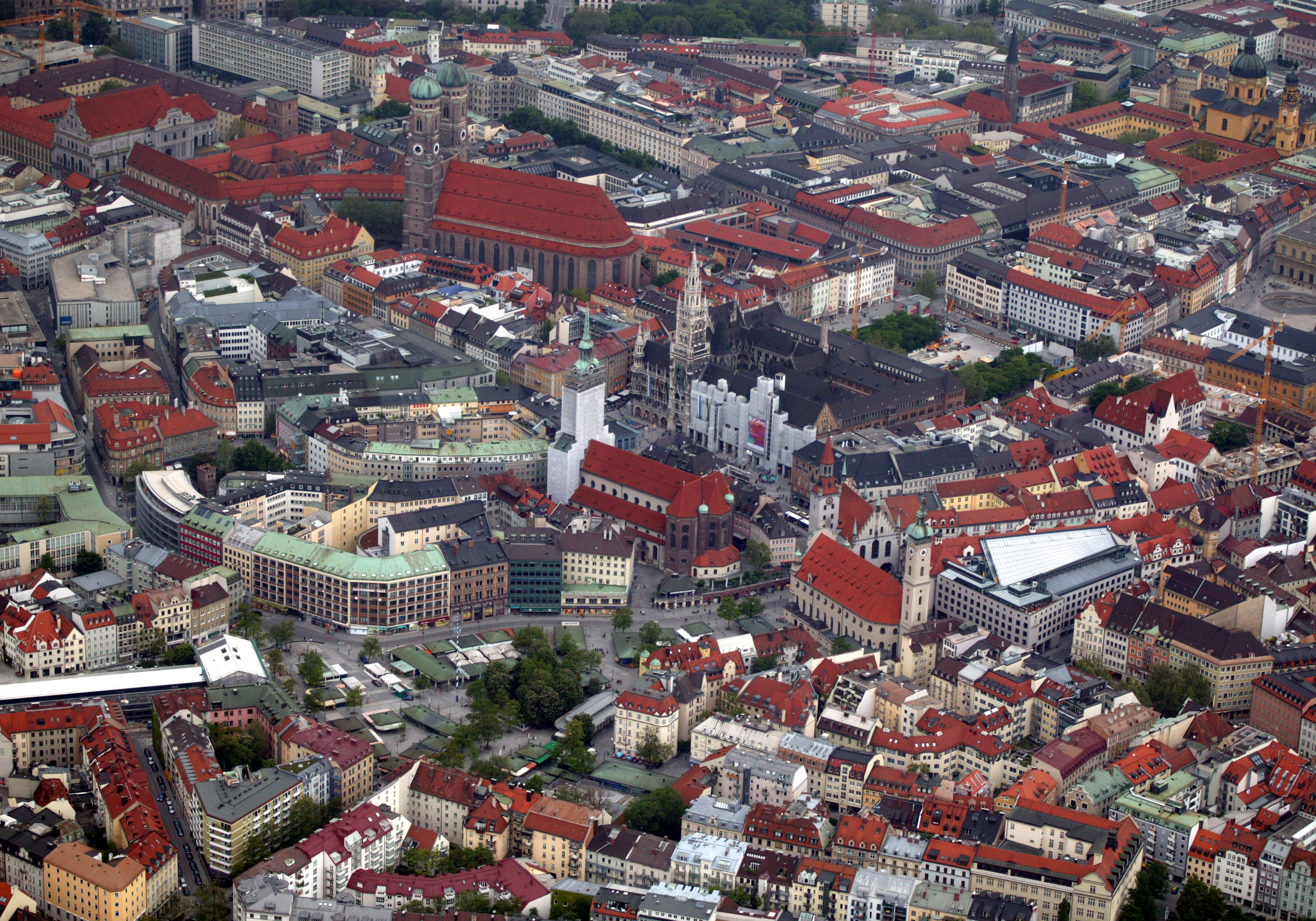 City of Munich, Munich, Downtown, from the air, seen from the air, Innercity, City